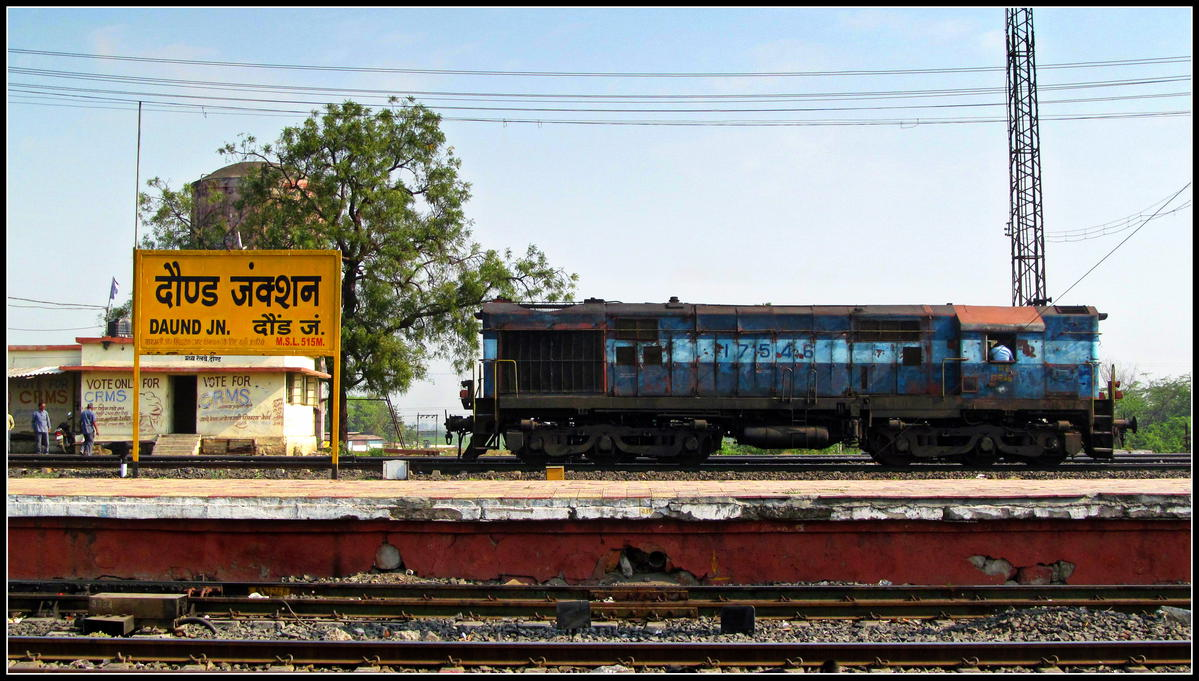 Daund Junction railway station view with a Locomotive Loco road number: #17546 Loco class: WDM2 Specialised in: Passenger traffic Loco shed: Pune (PUNE)